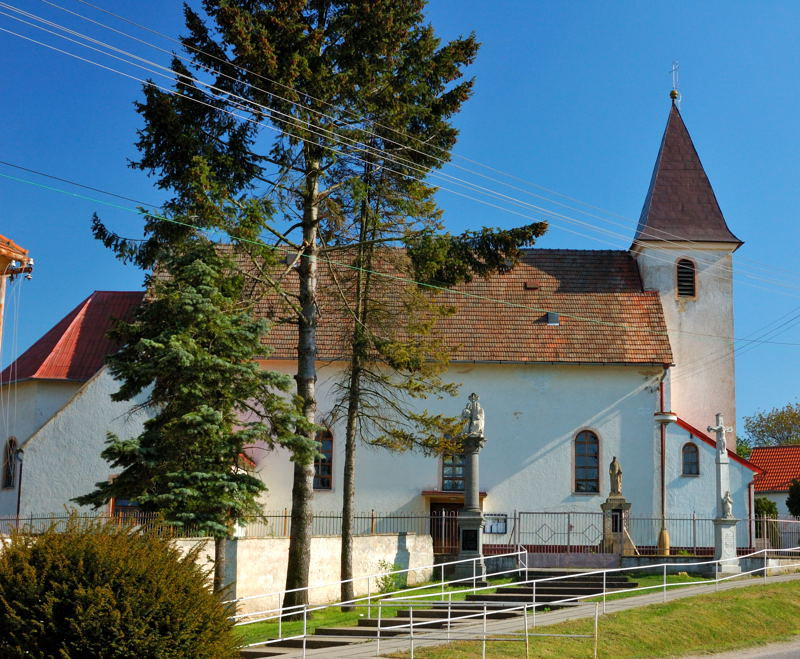 Church in Koválov